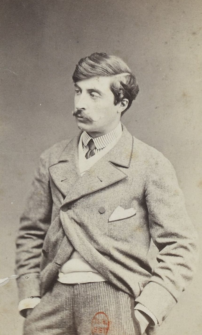 Portrait of James Tissot